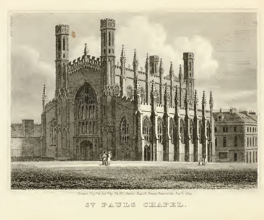 Illustration of St Paul's Chapel, York Place, Edinburgh in 1820, west door